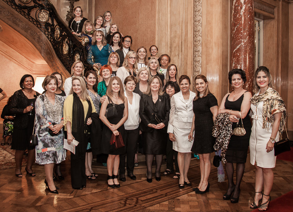 Consejo Ampliado de la Federación Internacional de Mujeres de Carreras Jurídicas (FIFCJ) Buenos Aires 2016